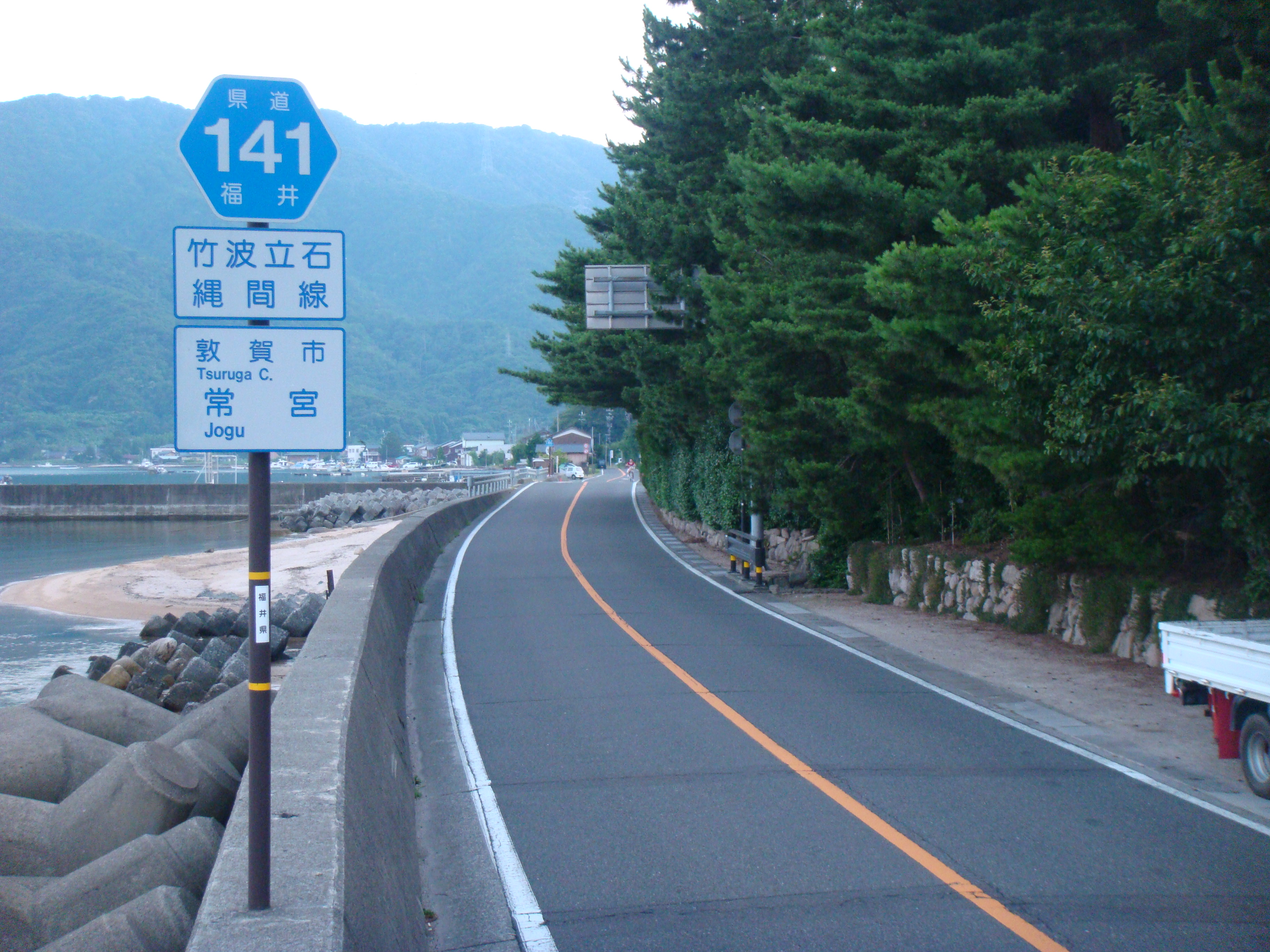 Fukui Prefectural Road Route 141（Takenami-Tateishi-Nouma Line） Place - Jogu,Tsuruga City,Fukui Prefecture,Japan Date - July 16, 2011 Format - JPEG, 3648x2736pixel, 24bit colors Photographer - NALA Wiki (talk)